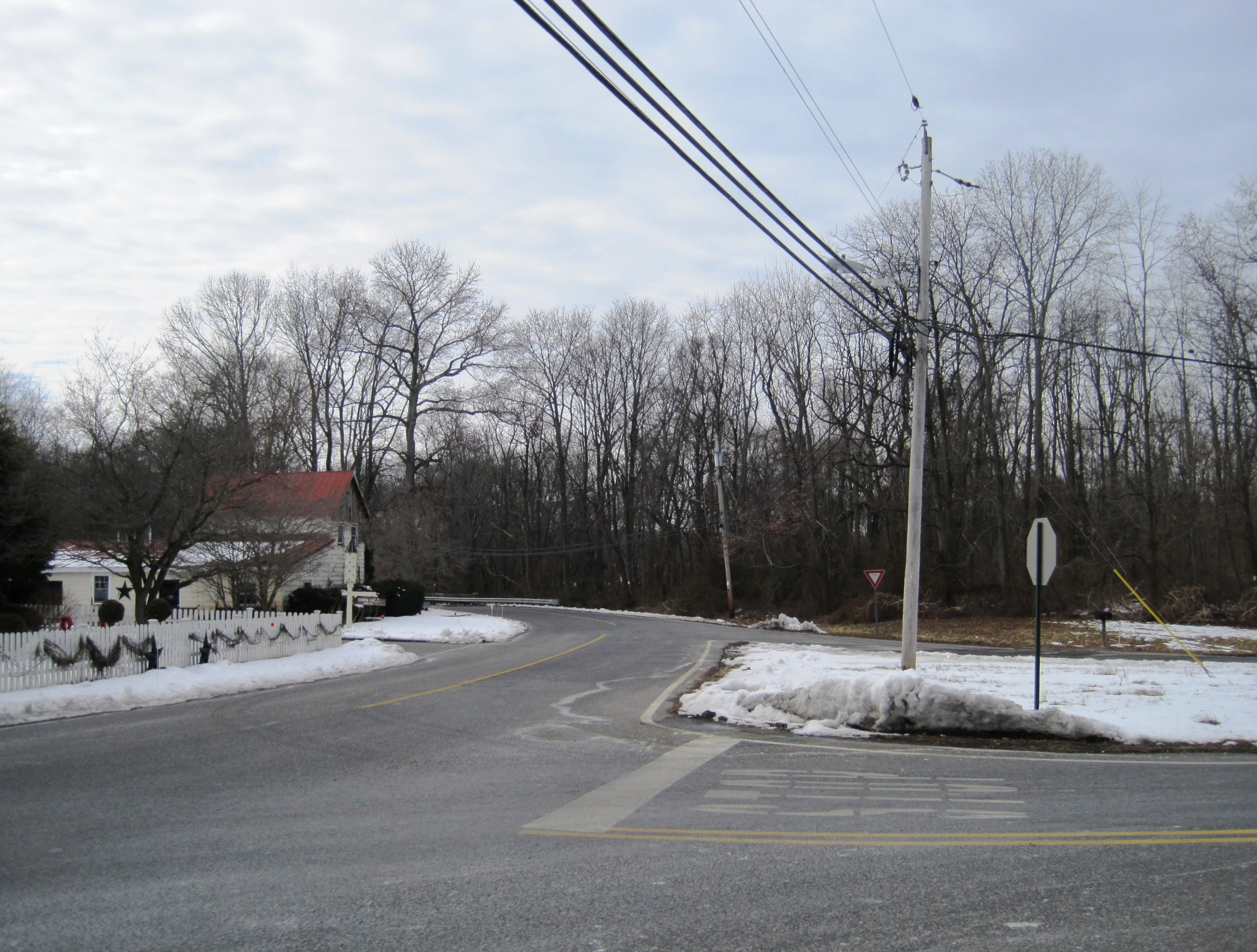 Photo of Carsons Mills, New Jersey, an unincorporated community within Robbinsville Township. Photo taken at the intersection of Sharon Road (ahead) and Windsor Road (to the right) looking west.